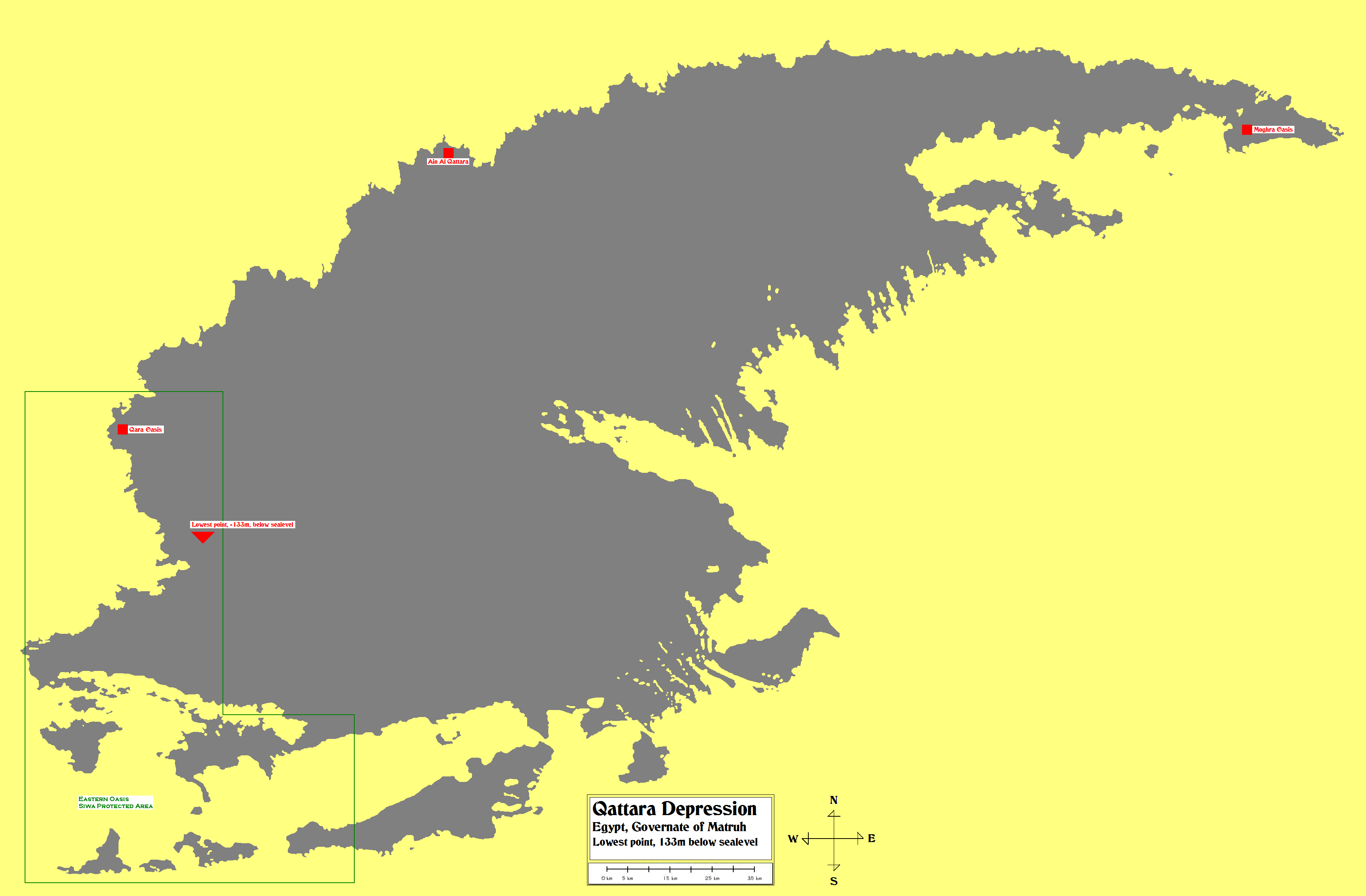 The Qattara Depression in the Libyan Desert, the Matruh Governate, Egypt.. One inhabited oasis is the Qara oasis.